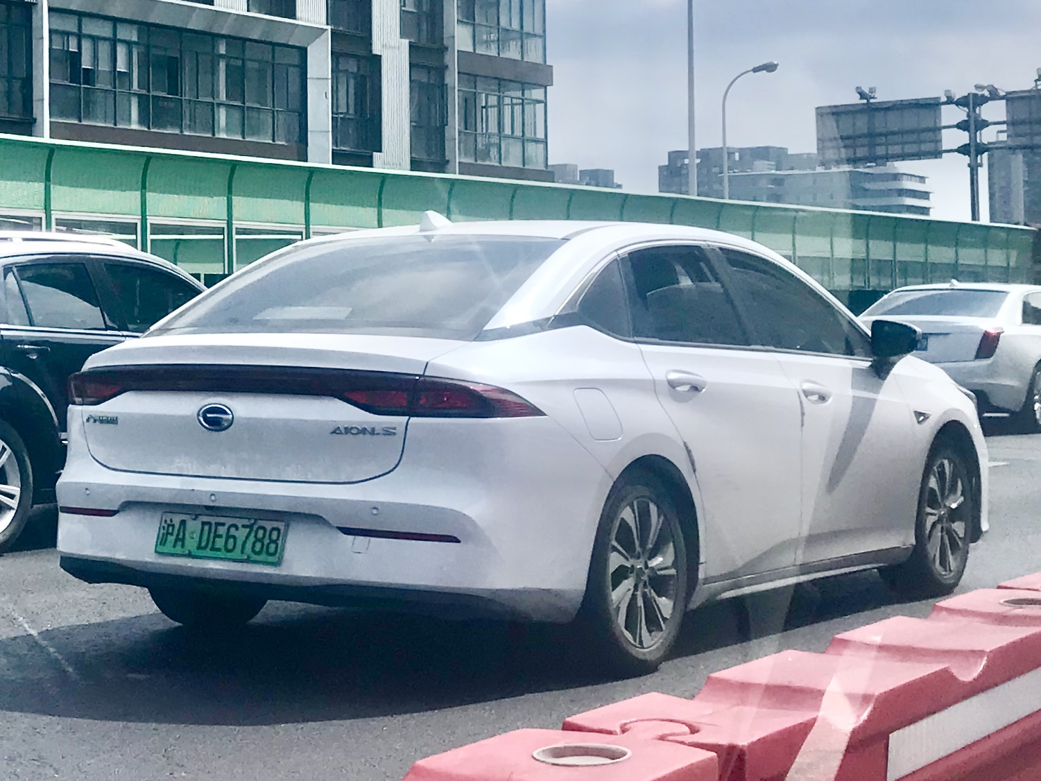 GAC Aion S